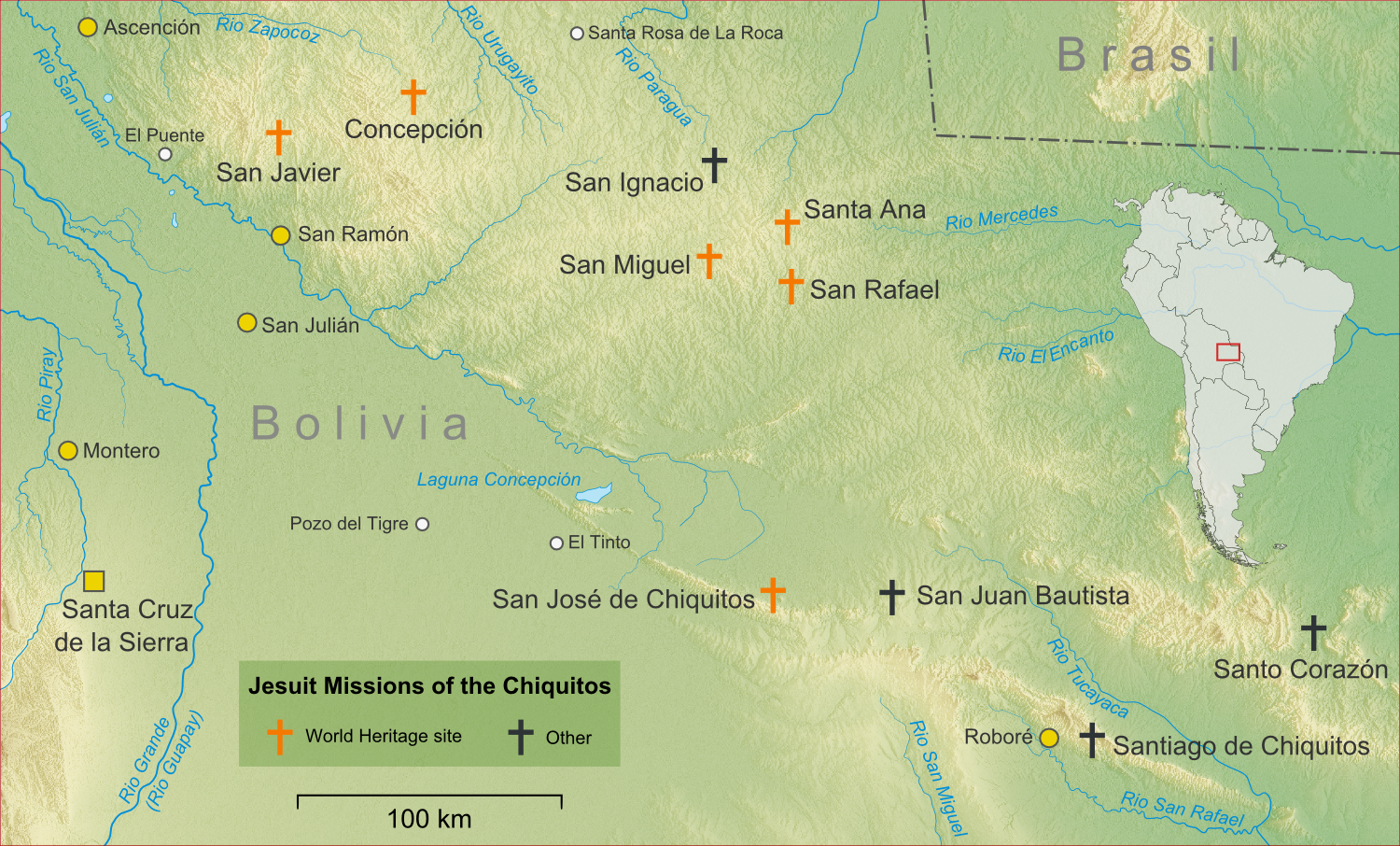 Map showing the present location of the Jesuit Missions of Chiquitos in Bolivia (English version)